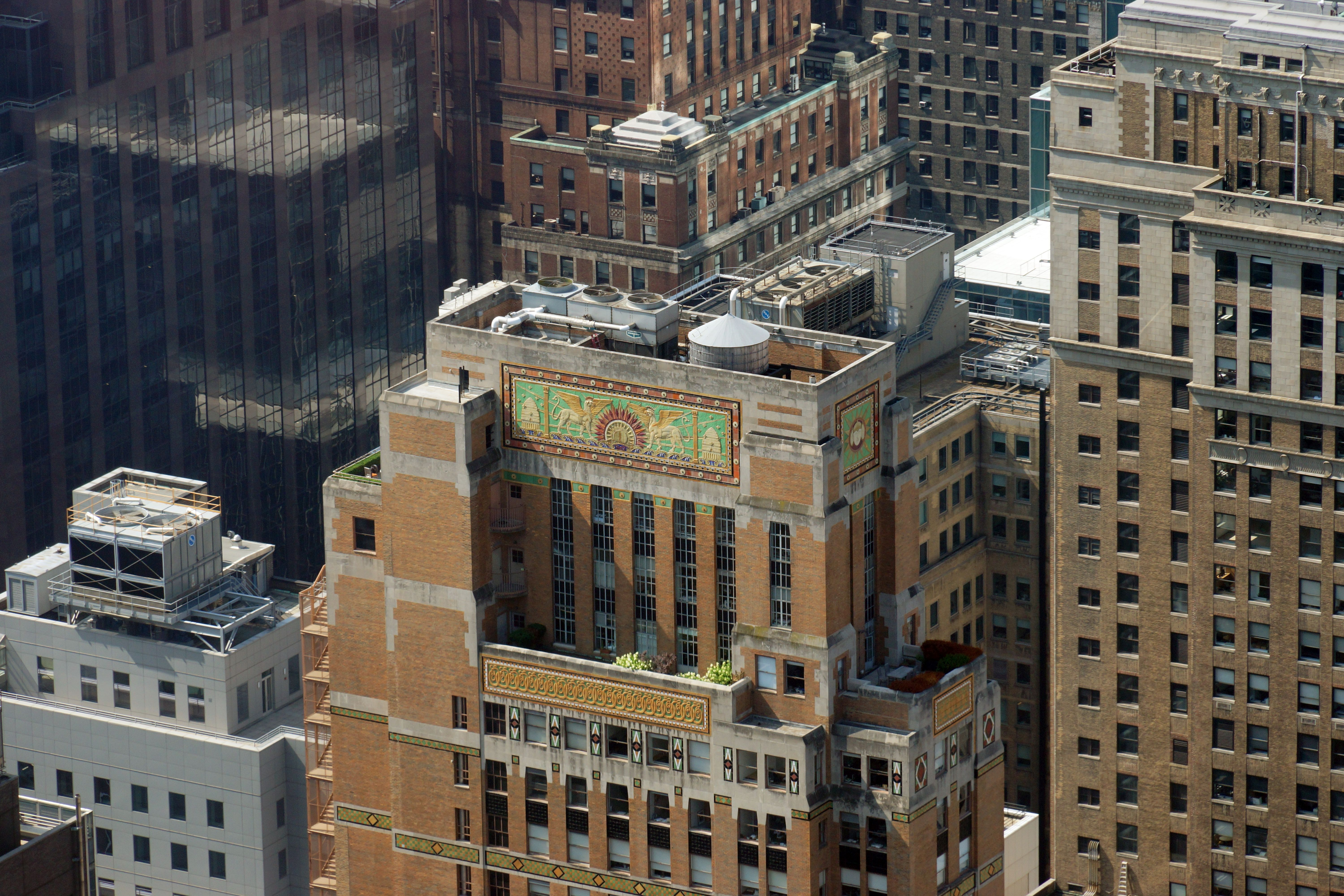 New York Deco bits